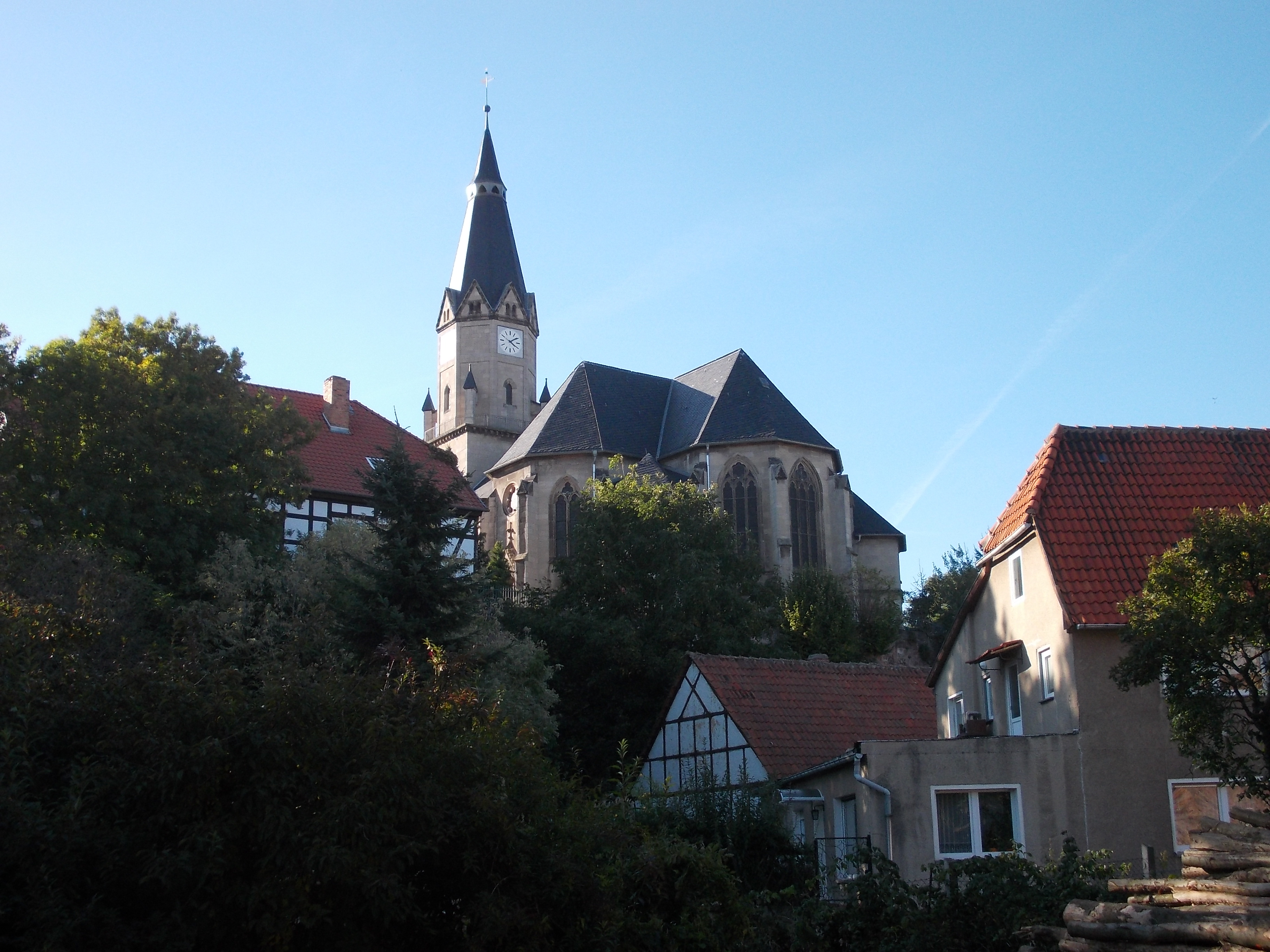 St. Peter and Paul Church in Berga/Kyffhäuser (Mansfeld-Südharz district, Saxony-Anhalt)